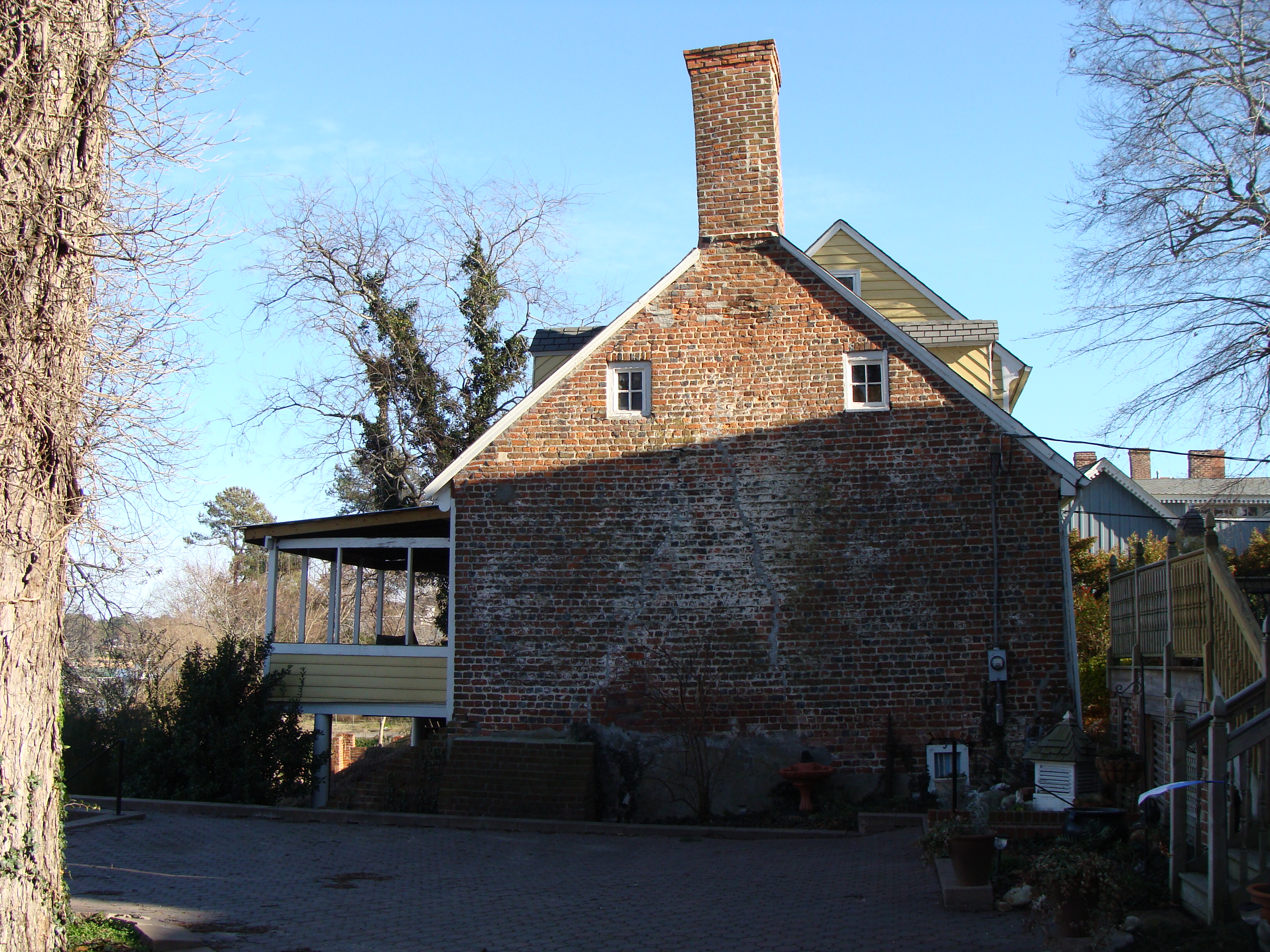 Flemish-bond brick end of oldest section